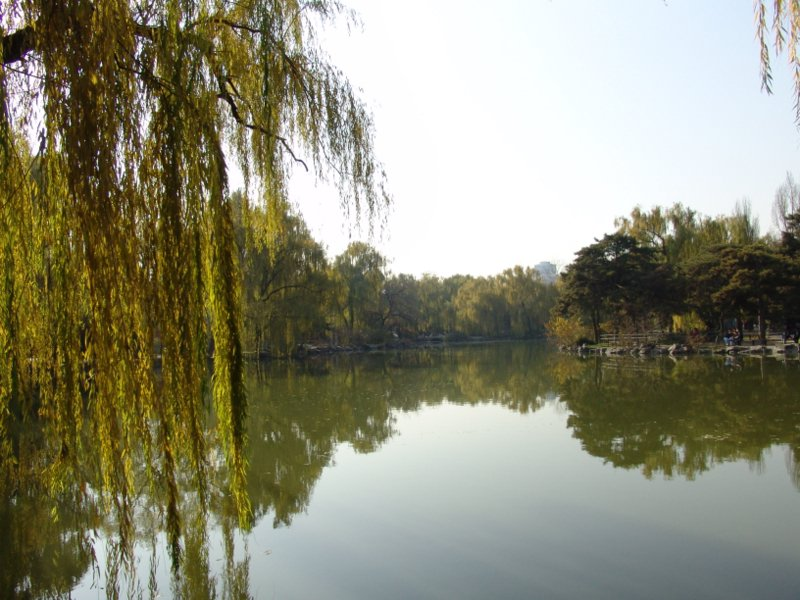 The Beijing Zoo in Beijing